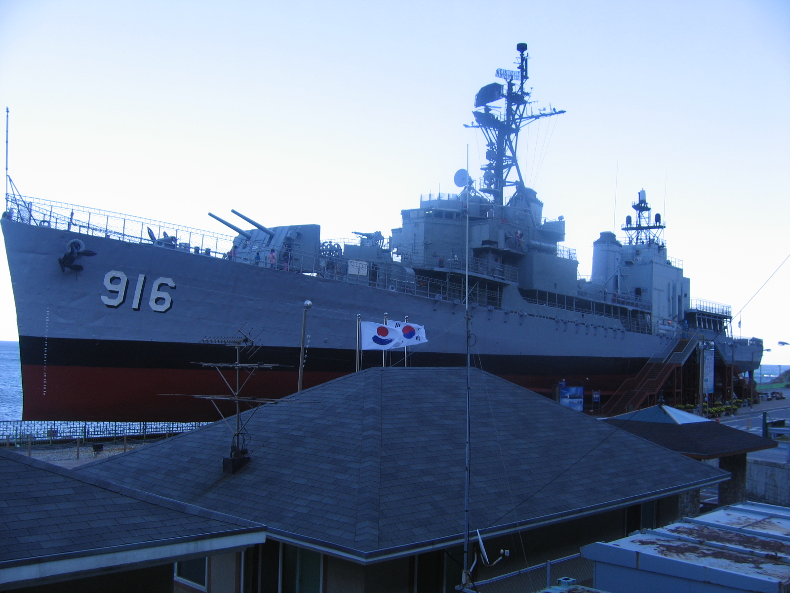 DD-916 JeonBuk of Korean Navy which was transferred from US Navy in 1972. DD-916 was originally DD-830 USS Everett F. Larson